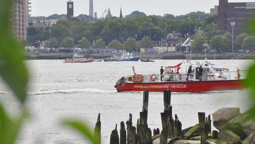 The Coast Guard and other federal, state and local agencies search for debris and bodies in the 2009 Hudson River mid-air collision.